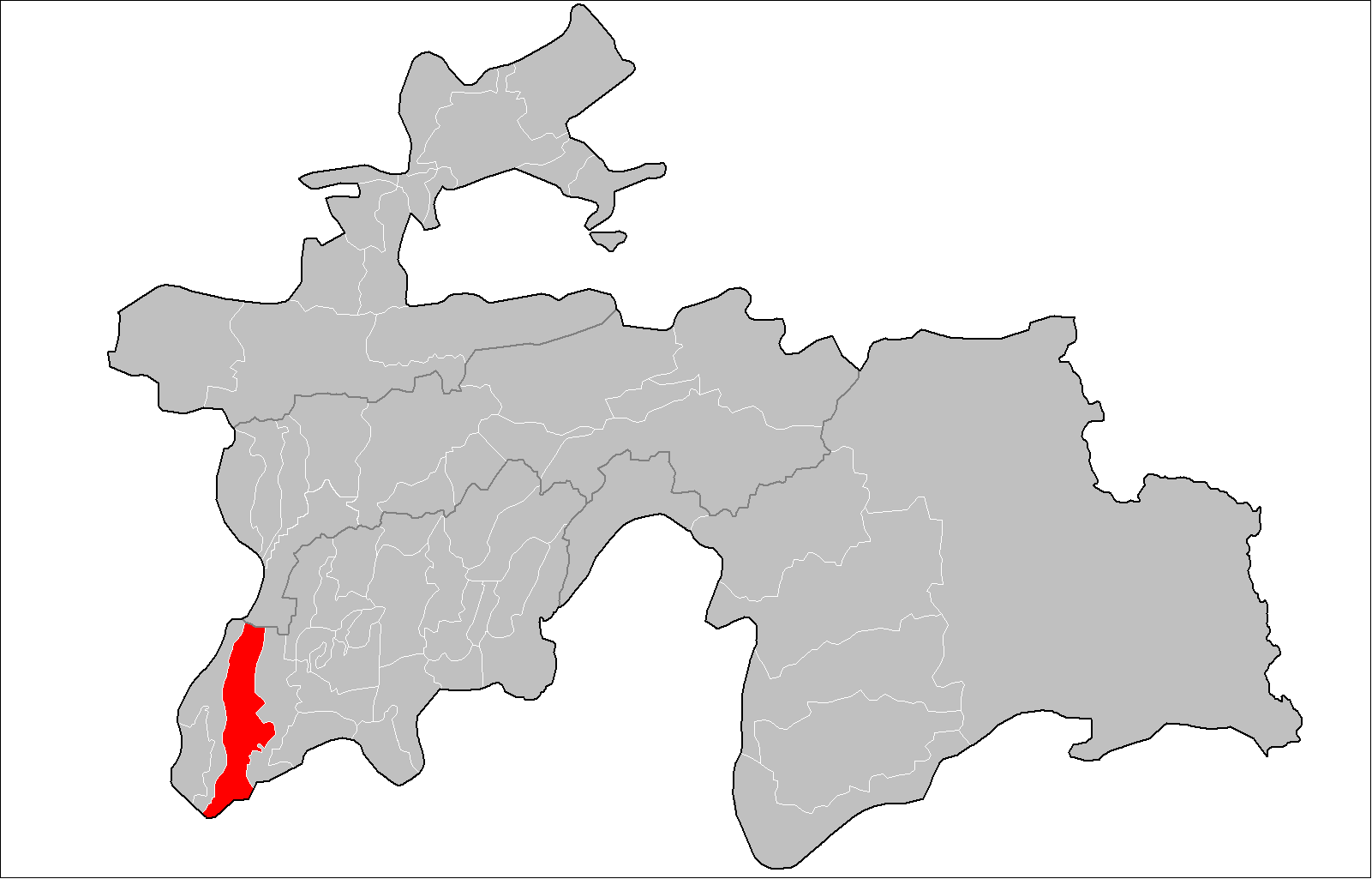 Location of Qabodiyon District in Tajikistan